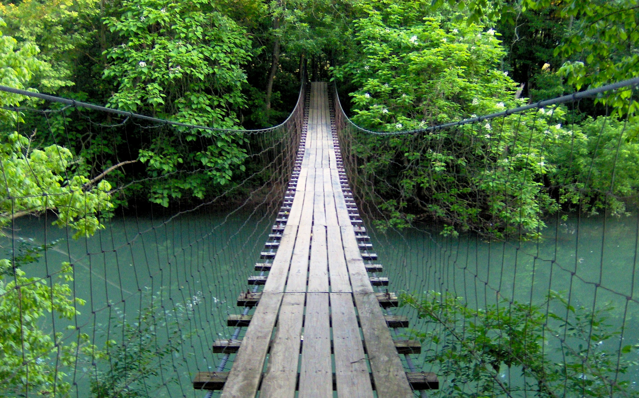 Swing bridge crossing the Wolf River at Sgt. Alvin C. York State Historic Park in Pall Mall, in the U.S. state of Tennessee. The bridge was built by Americorps*NCCC in June 2000, and connects the US-127 section of the park with the Wolf River Loop section. Coordinates: 36.54512 -84.95457